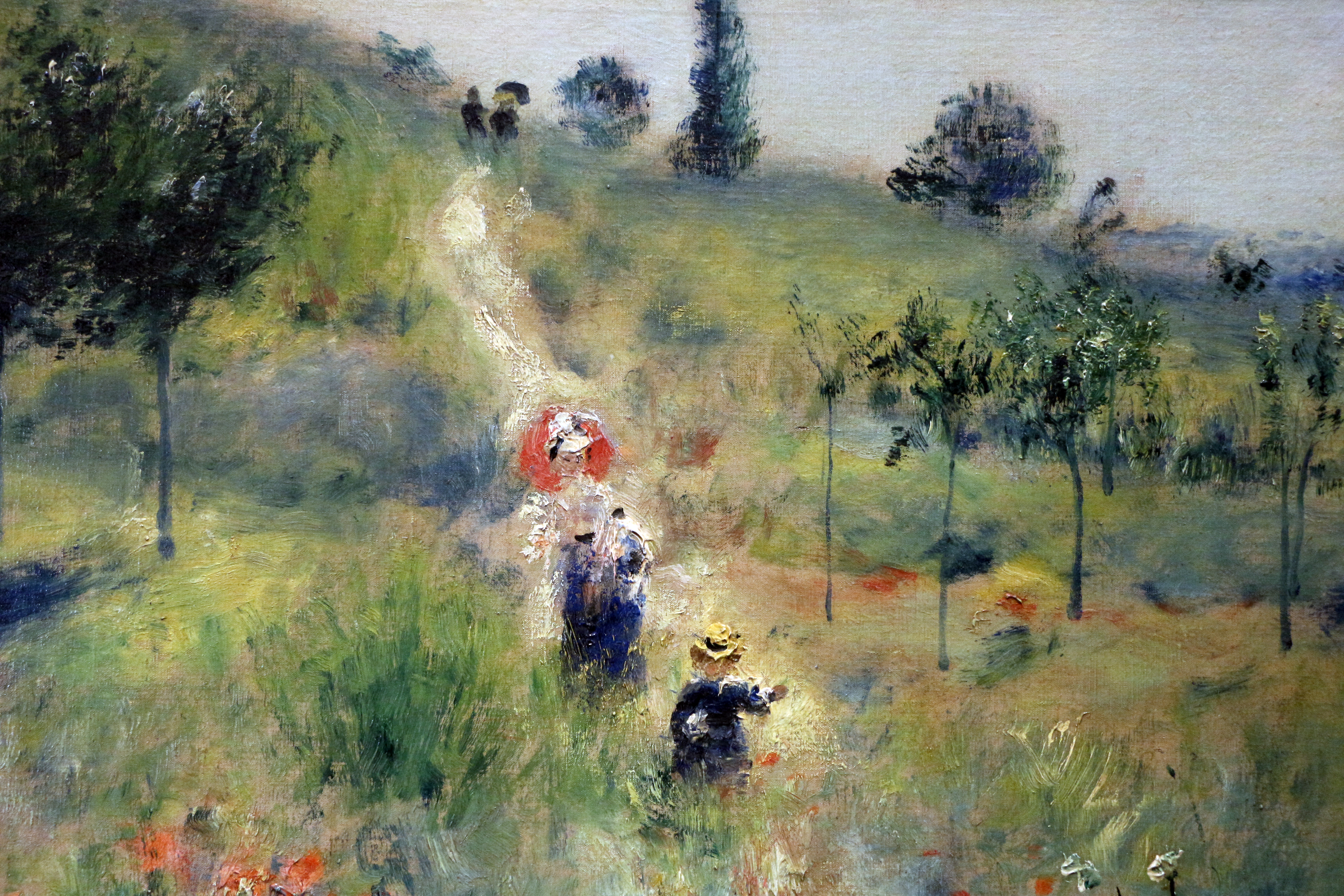 Paintings by Pierre-Auguste Renoir in the Musée d'Orsay